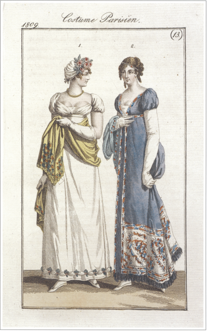 In this fashion plate , the woman on the left wears a crêpe bonnet ornamented with roses, an amber necklace, a white gown trimmed with crêpe, flowers, and ribbons, an embroidered yellow silk shawl, white gloves, and white sandals. The woman on the right wears a coiffure" à la Ninon" decorated with pearls, a cashmere gown, an apple-green shawl, white gloves, and white sandals . A similar cashmere gown survives in the Musée historique des Tissus, Lyon.